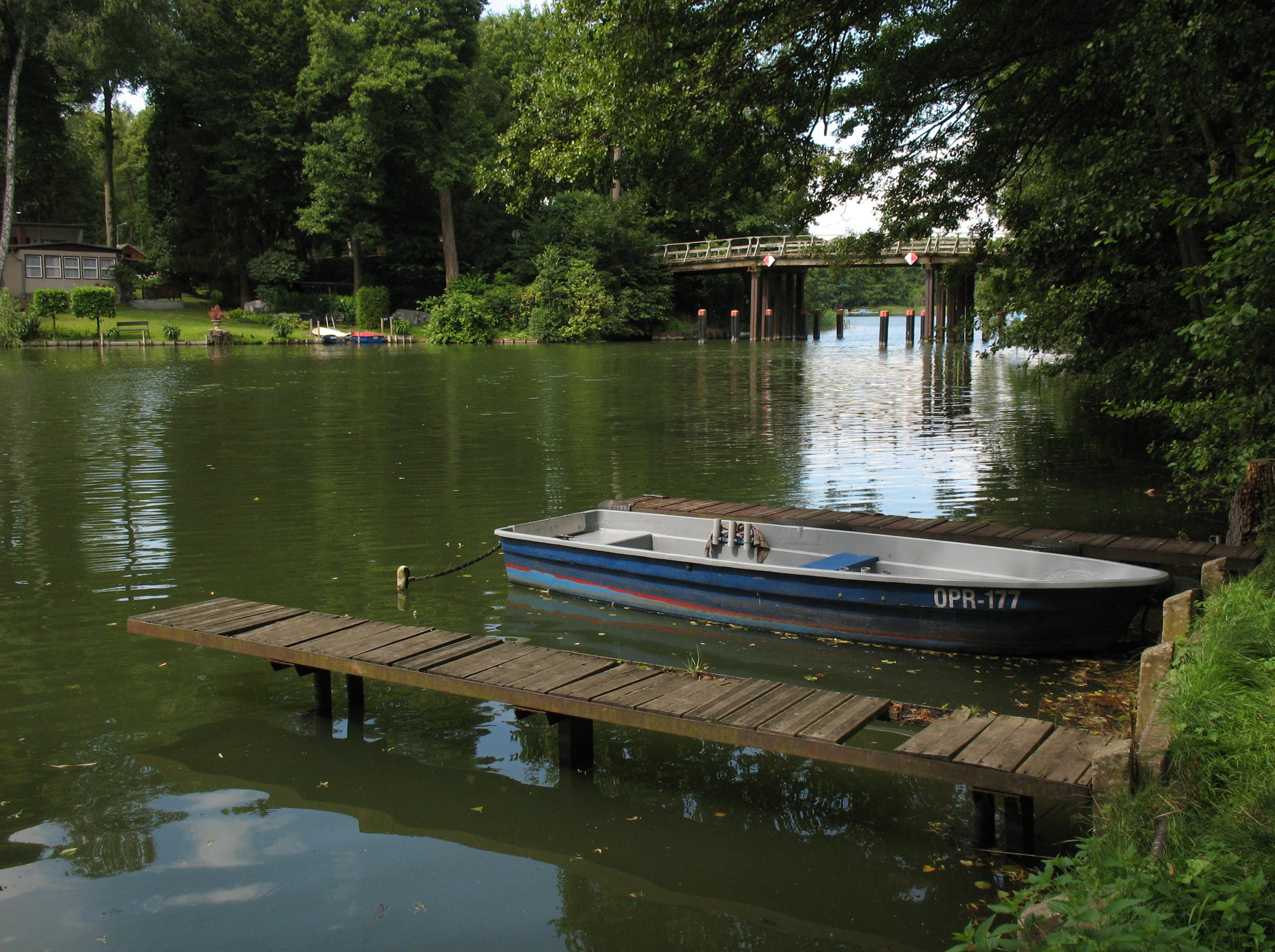 Rhin and wooden bridge in Neuruppin-Zermützel in Brandenburg, Germany